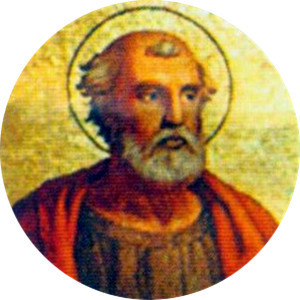 Portait of Pope Gelasius I in the Basilica of Saint Paul Outside the Walls, Rome